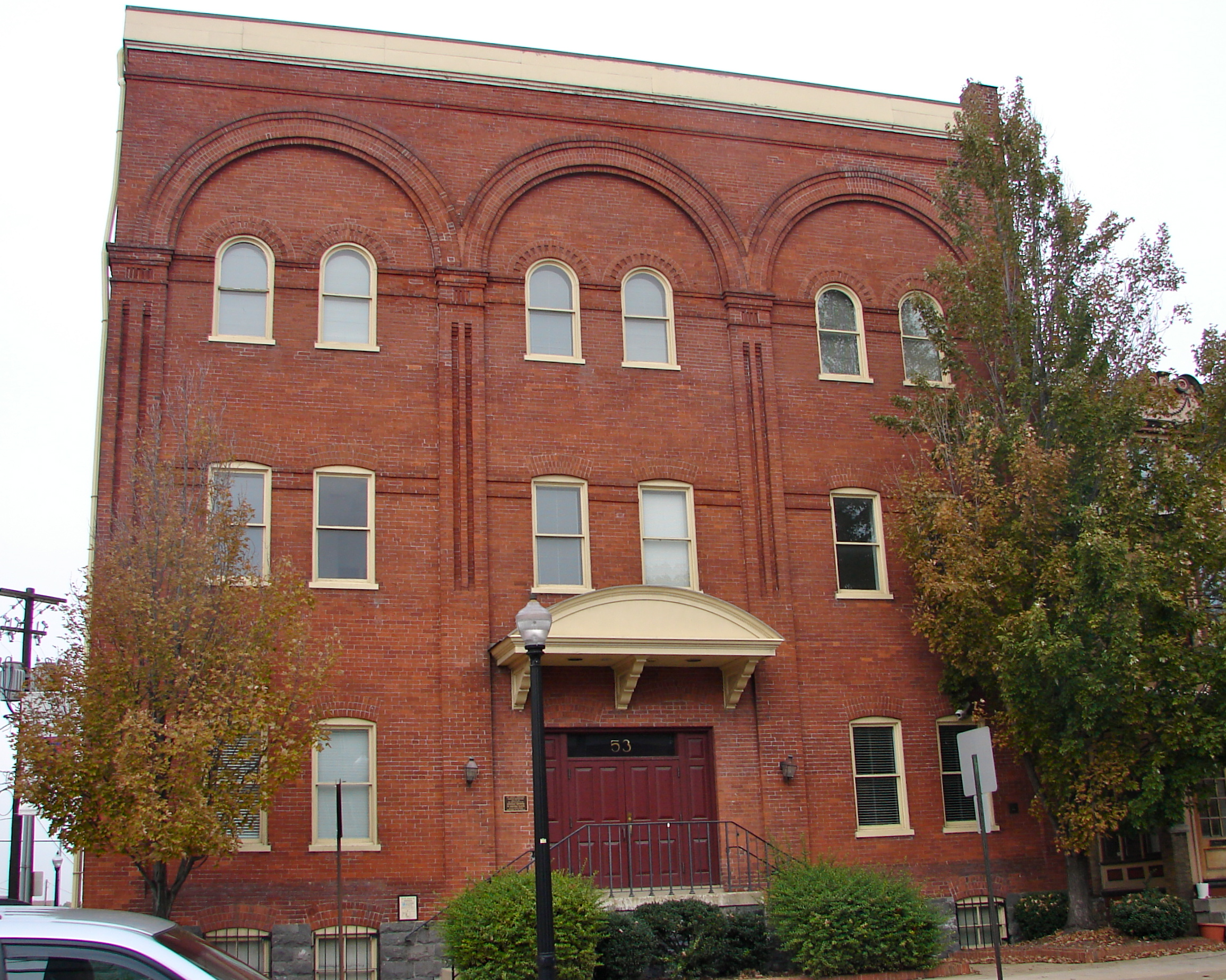 B.F. Good & Company Leaf Tobacco Warehouse on the NRHP since January 3, 1985. At 49–53 West James Street in the Stadium District of Lancaster, Pennsylvania. Part of the Tobacco Warehouse multiple listing in Lancaster.